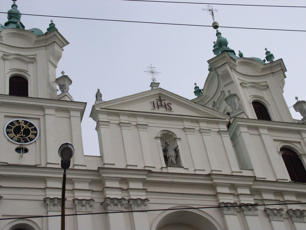 Church of Saint Francis Ksaver. Hrodna, Belarus.